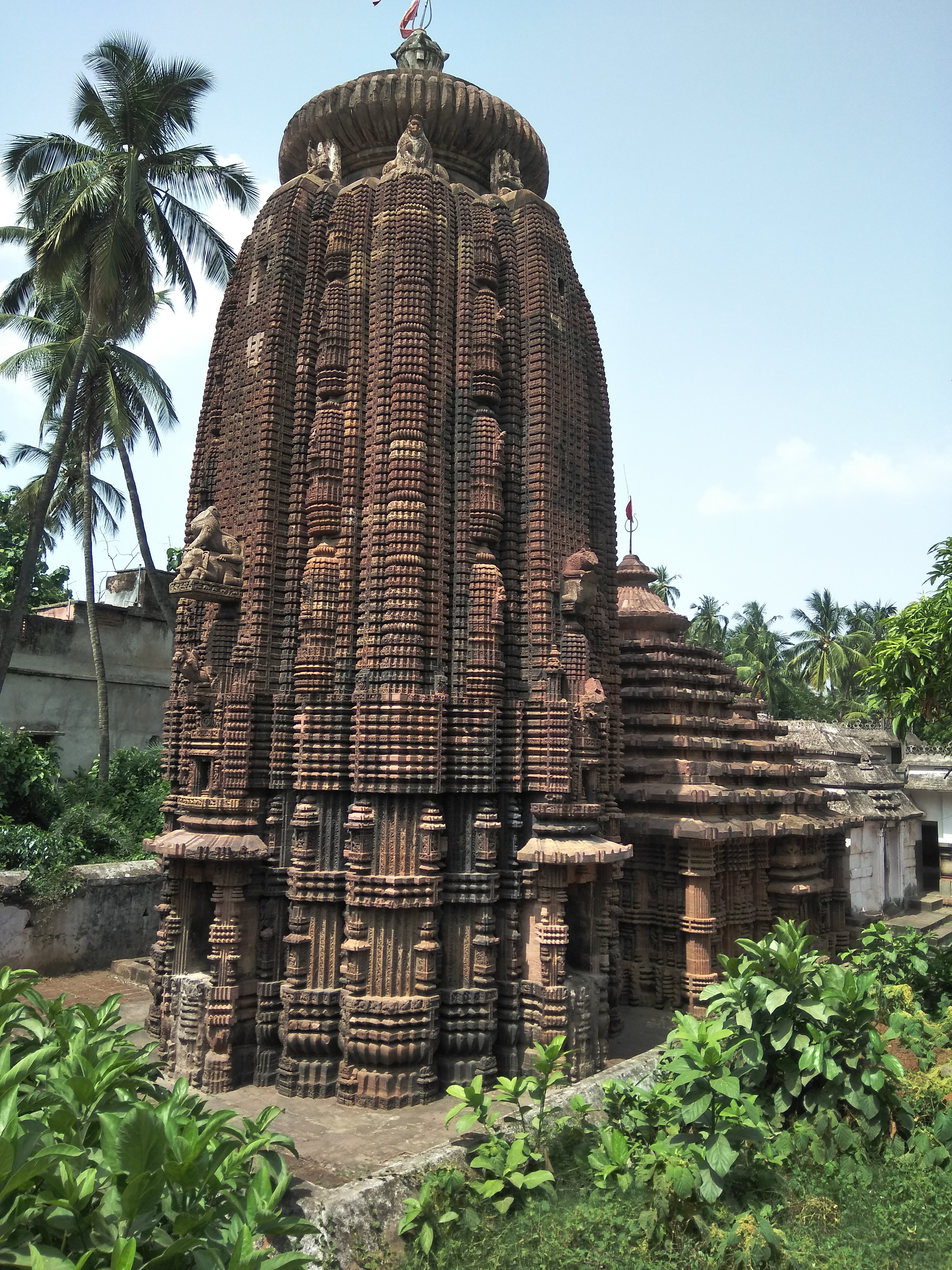 Daksha Prajapati temple